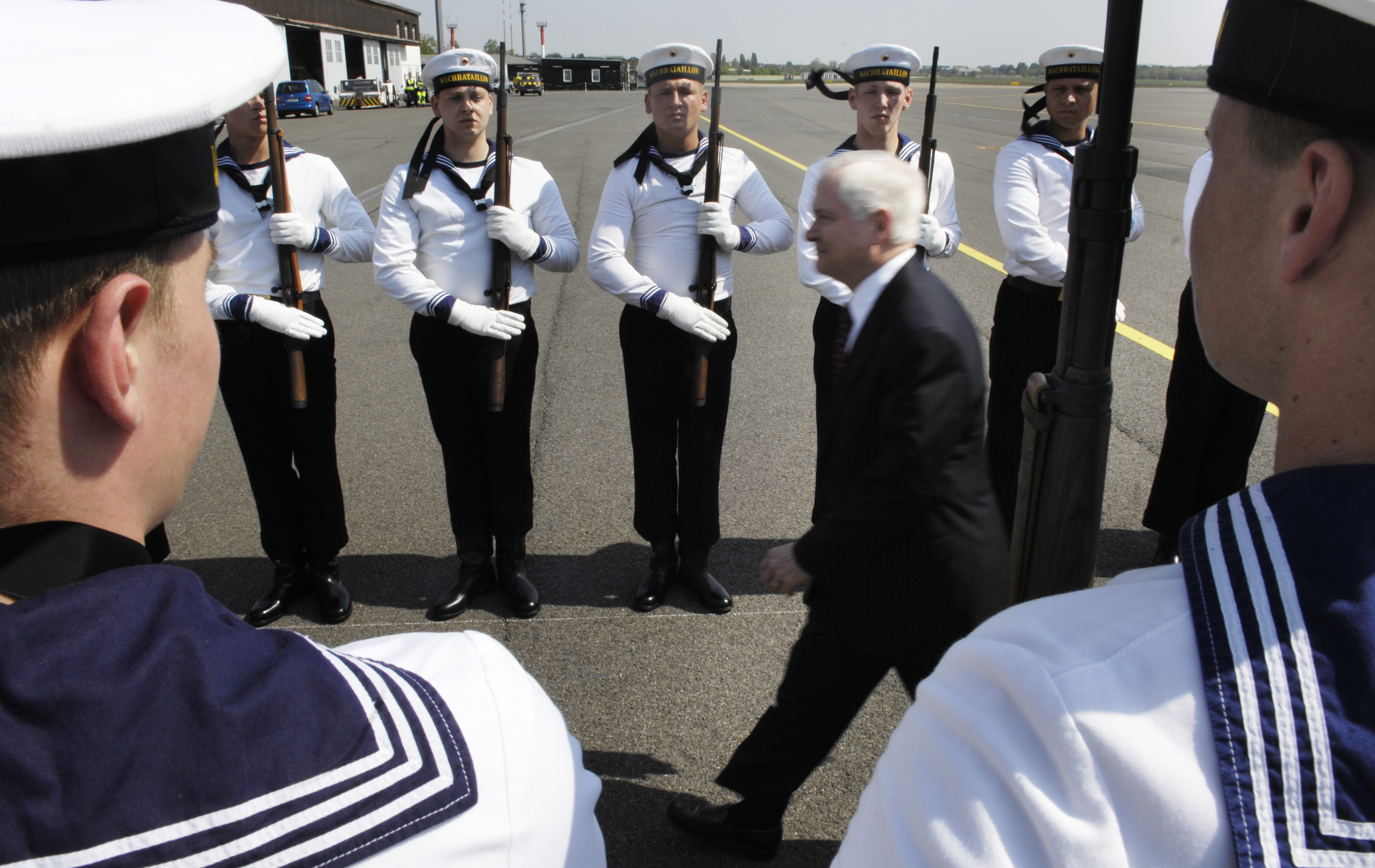 German military members greet U.S. Defense Secretary Robert M. Gates as he arrives in Berlin, April 25, 2007.